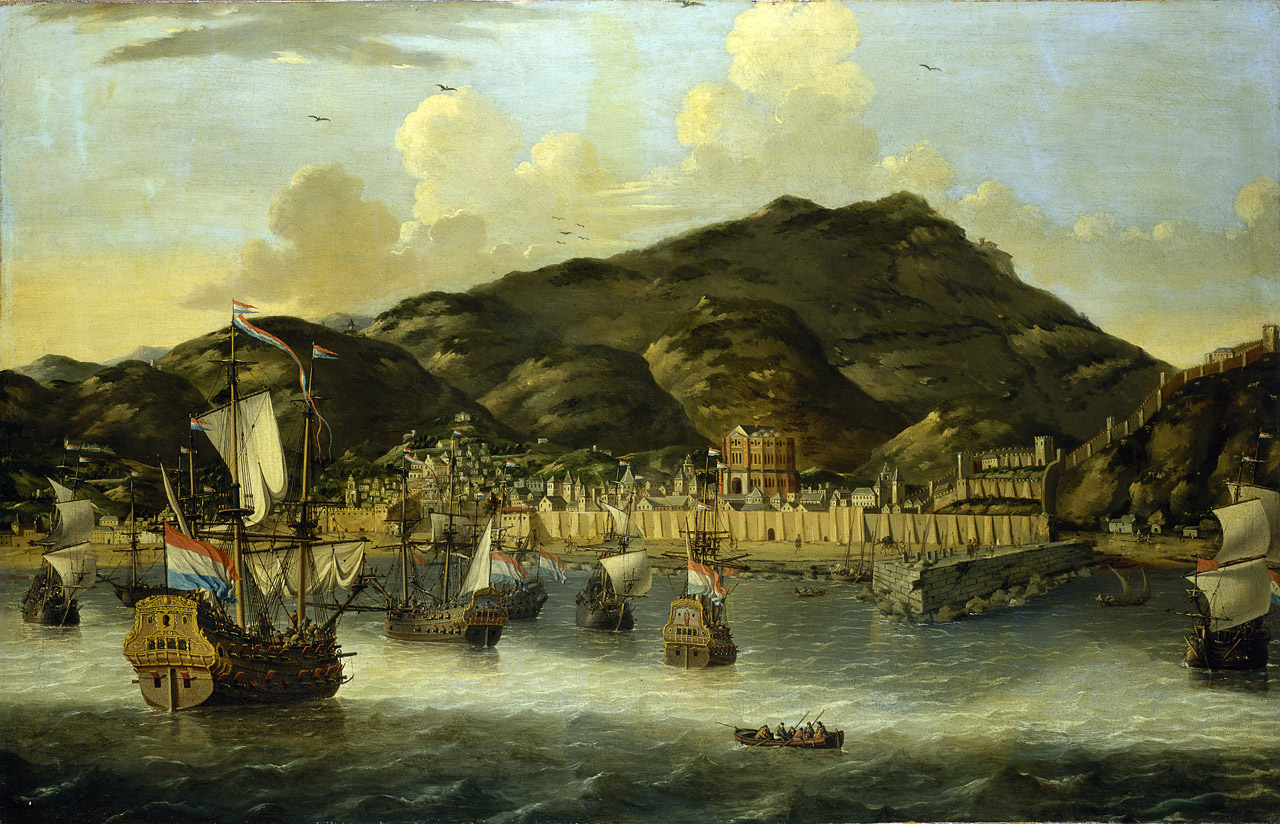 The painting showing Dutch ships off the coast of Tripoli. Viewed from above, though not quite an aerial perspective, the port and shipping in the bay are all very carefully detailed.